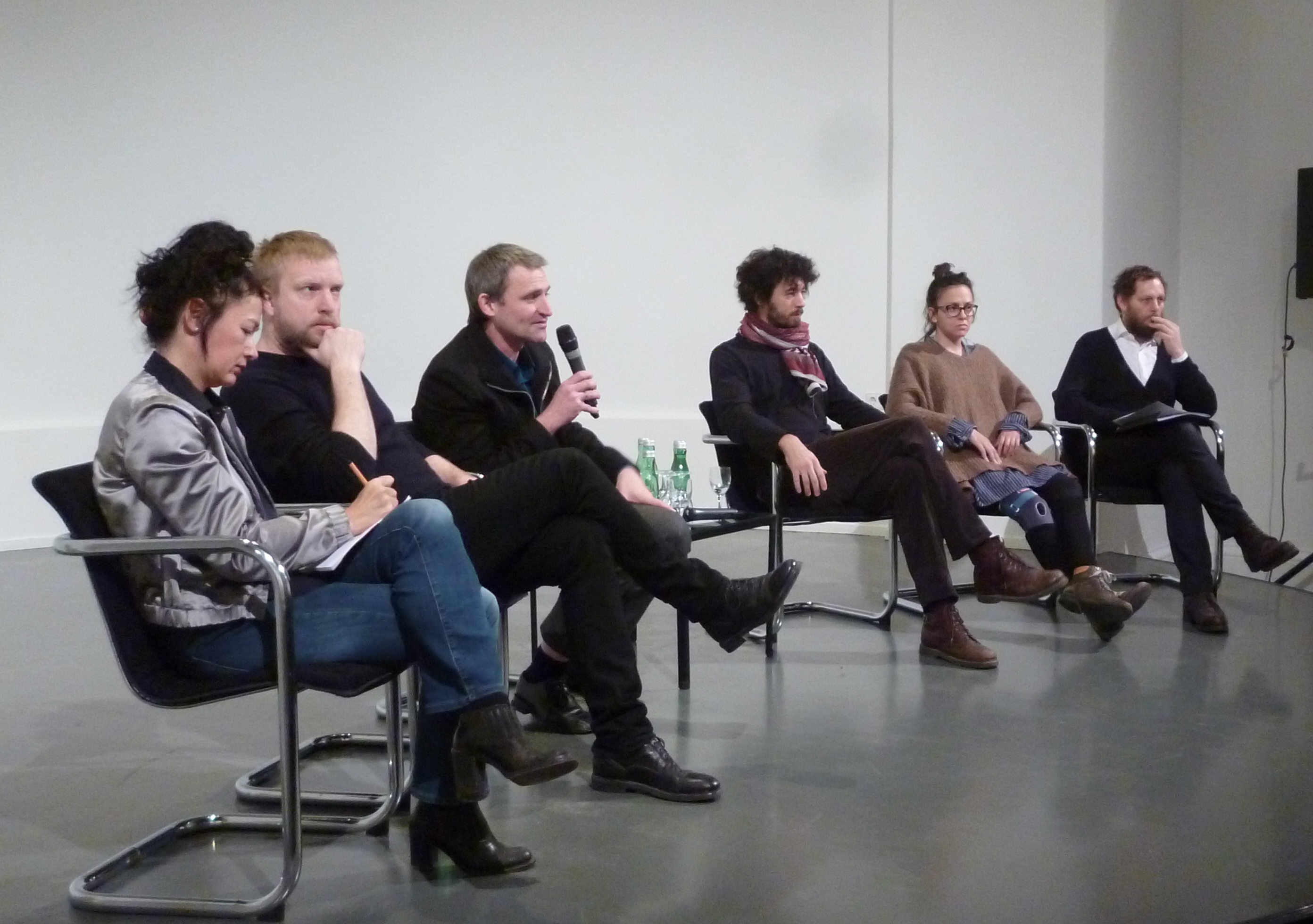 Presentation of the artists for the German Pavilion at the Venice Biennale 2015 (left to right): Hito Steyerl, Tobias Zielony, Florian Ebner (curator), Philip Rizk, Jasmina Metwaly, Olaf Nicolai - at Künstlerhaus Bethanien in Berlin-Kreuzberg